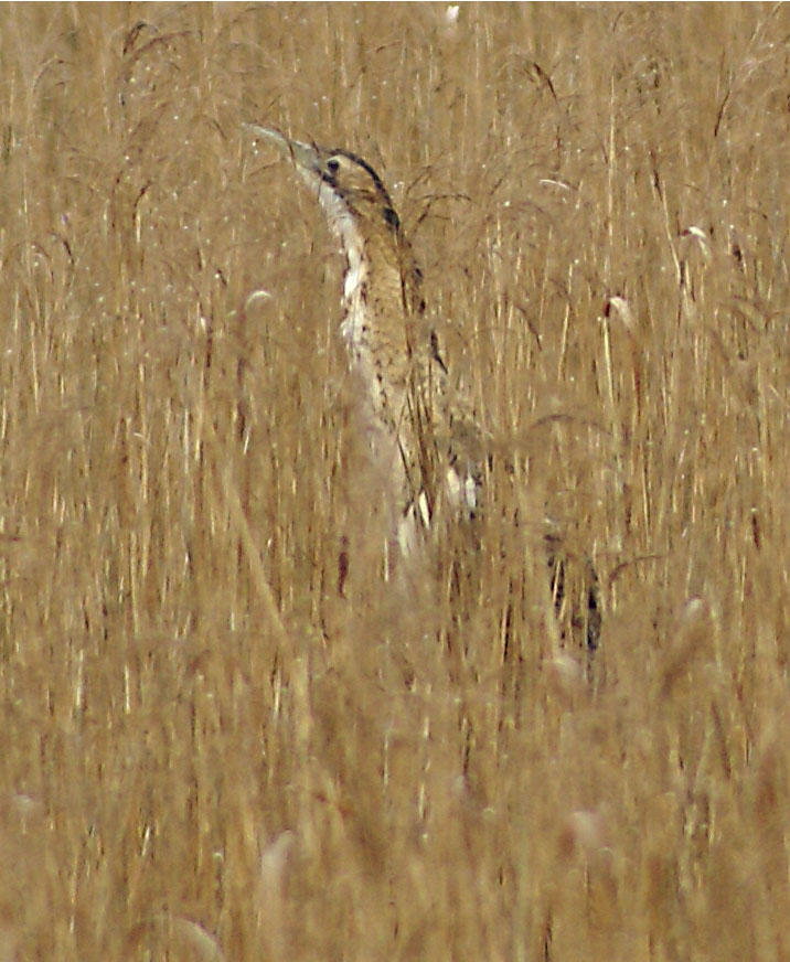 A Great Bittern in reeds at Minsmere RSPB reserve.